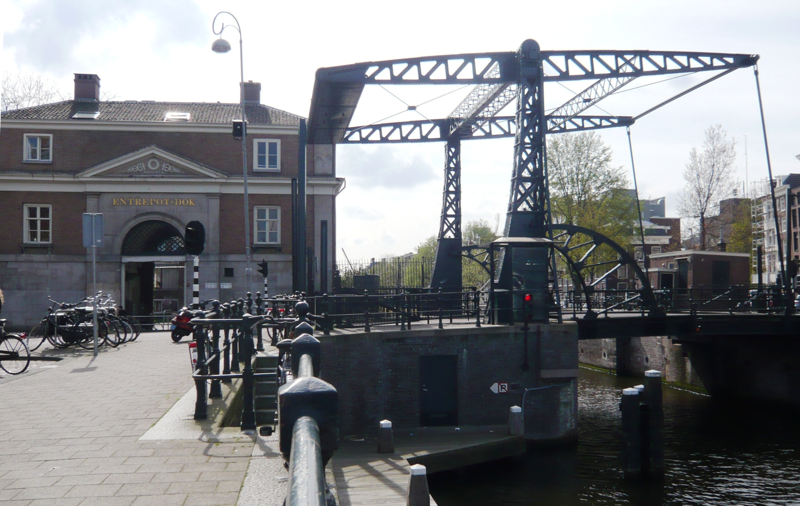 The Entrepot Dock was completed in 1830 as a warehouse to store goods "entrepot", or tax-free in transit. The former warehouse buildings have since been converted to housing. The Neoclassic gate building still says "Entrepot Dok" and the cast iron drawbridge (Brug 80) was built over the Nieuwe Herengracht in 1906 by the Nederlandsche Fabriek van Werktuigen en Spoorwegmateriaal Amsterdam (later in 1929 the name was changed to Werkspoor N.V.). The electrical unit dates from 1911. It still functions for traffic over water and over land.